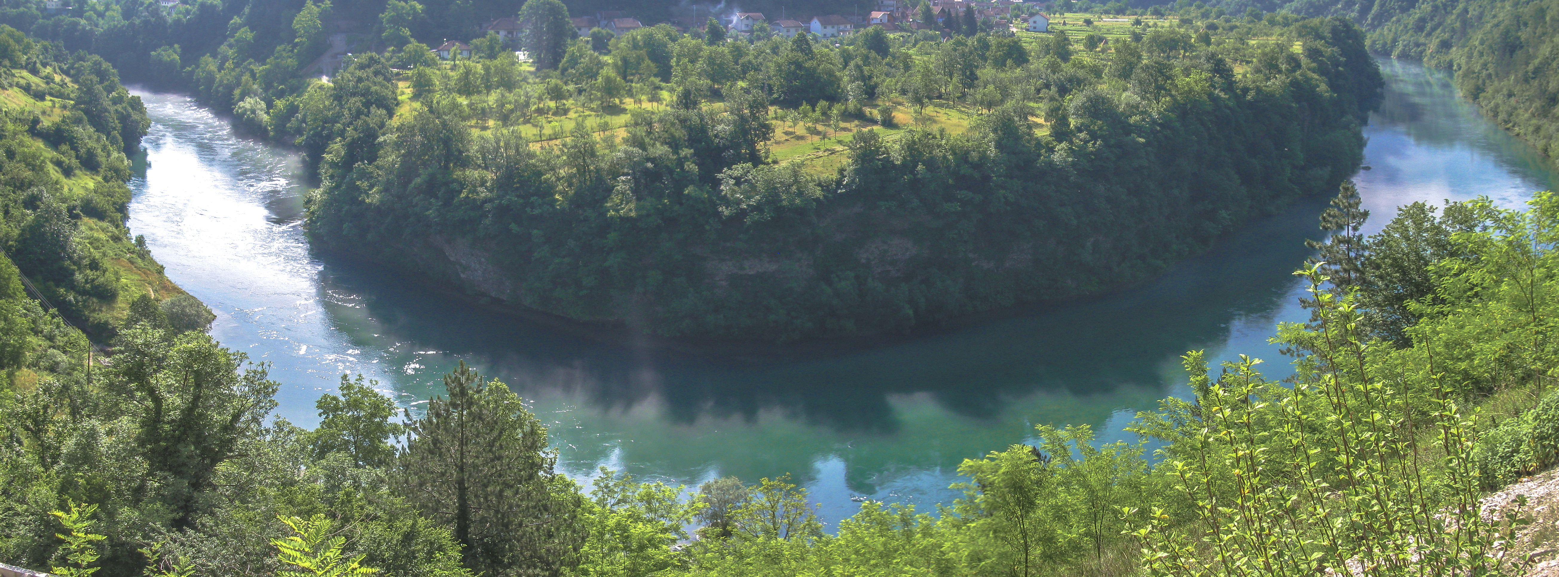 River Neretva with Lug in background (Jablanica) in Bosnia and Herzegovina